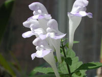 Skull Cap